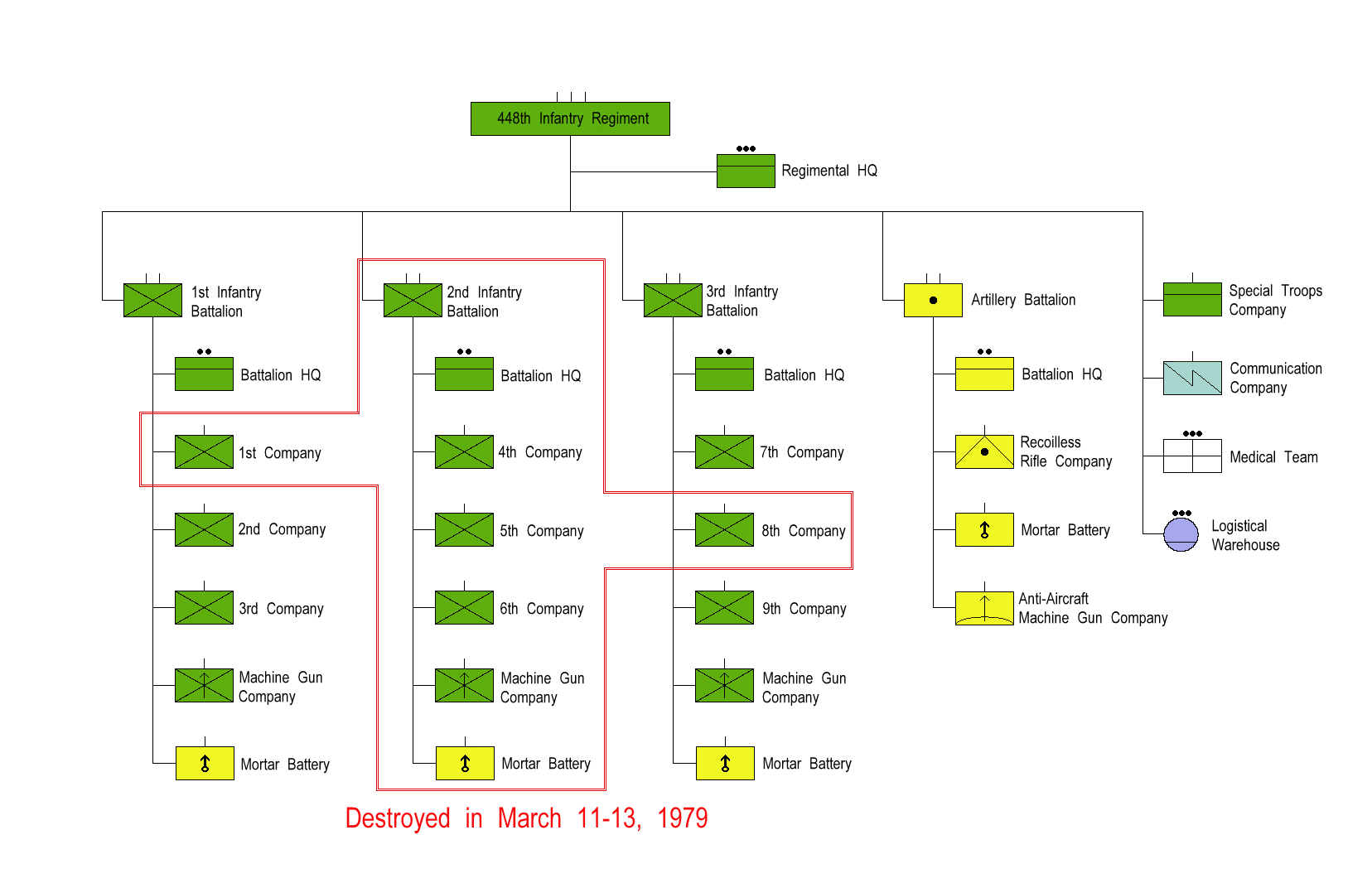 448th Infantry Regiment of 150th Army Division, 50th Army Corps, People's Liberation Army, During the Sino-Vietnamese War, February-March 1979. Units in the red rectangle were destroyed by PAVN forces in March 11-13, 1979. 中文（中国大陆）: 陆军第50军150师448团在1979年对越自卫反击战中的编制序列。红框中为在3月11-13日间该部被越军歼灭的分队。